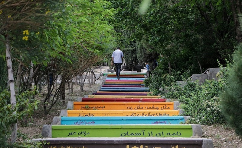 Shahrak-e Gharb